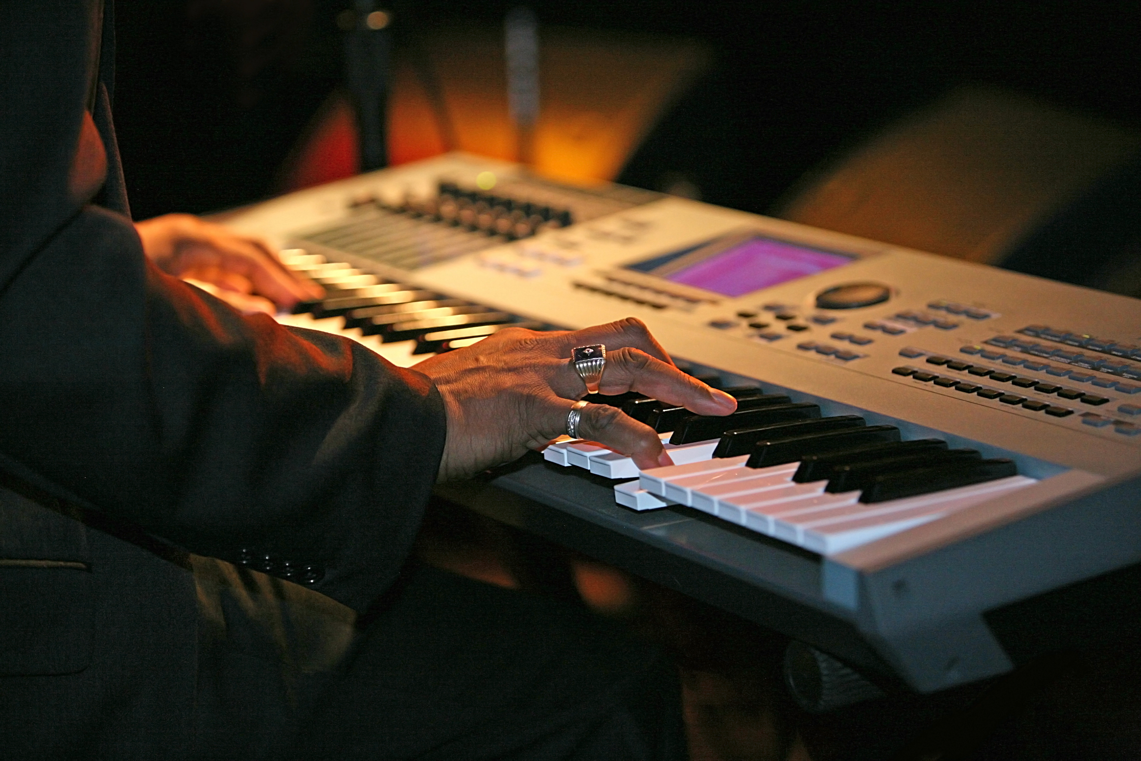 Len Rainey & The Midnight Players. Larry Logan on keyboard Yamaha Motif XS 6 (2008)